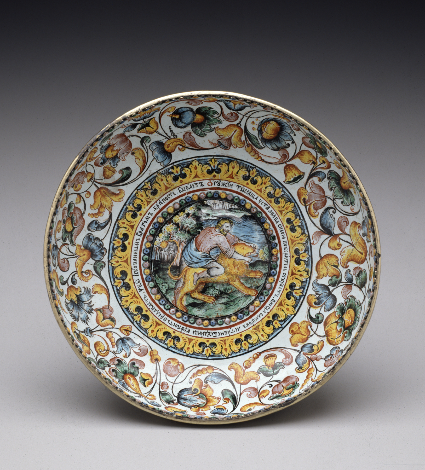 In 17th-century Russia, cups often carried moralizing maxims and images, thus urging one to drink with moderation. Here, the depiction of Samson and the accompanying versified inscription warn the cup's owner not to surrender to the wiles of immoral women. The painting on the underside probably depicts the fox and the crow from Aesop's Fables and has a similar message: as the harlot decieved Samson, so the fox decieved the crow with sweet talk, thus making him drop the cheese he held in his beak. Aesop's text was translated into Russian in 1700 but was probably known even before then through Western sources.